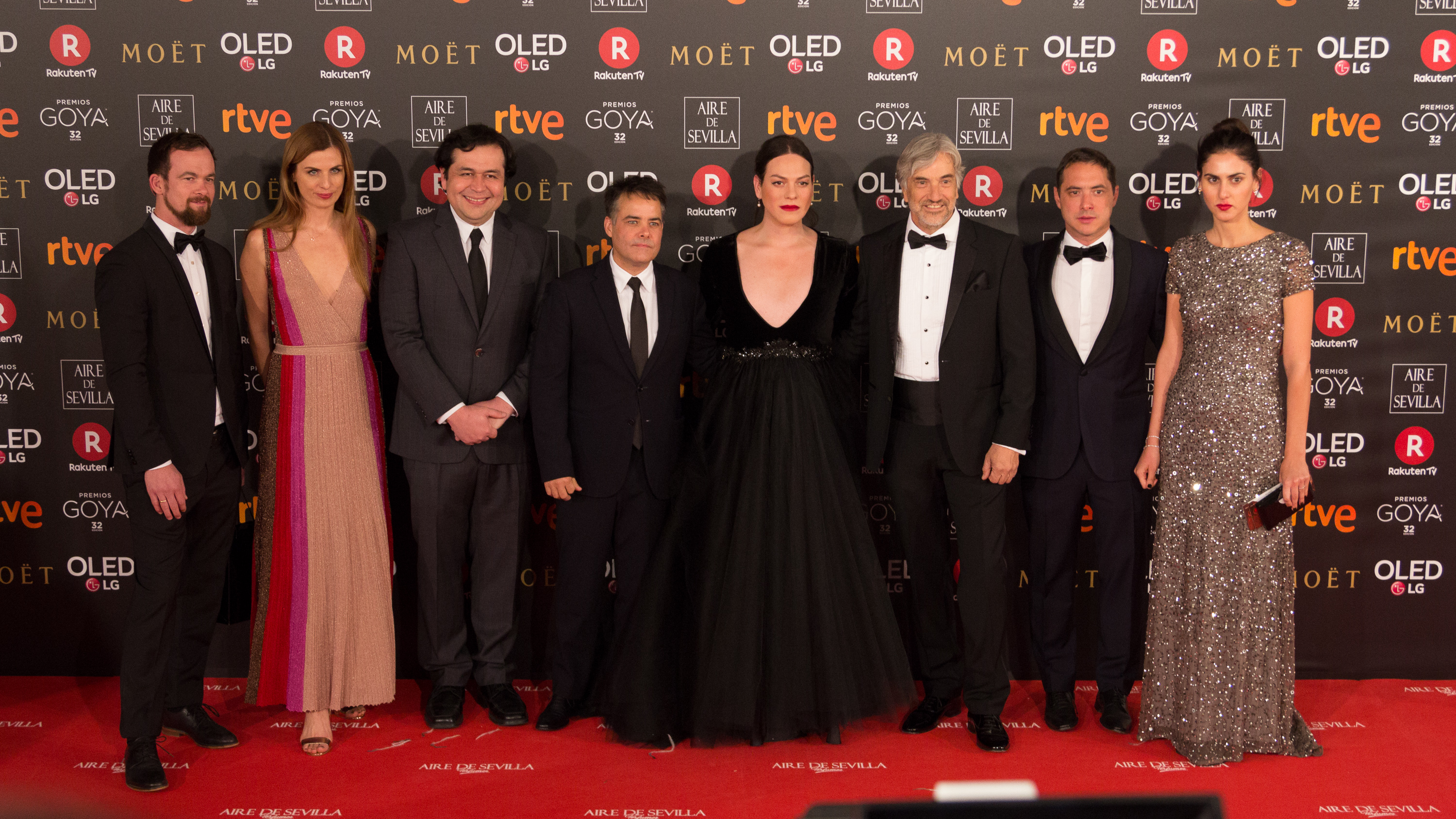 32nd Goya Awards, 2018.